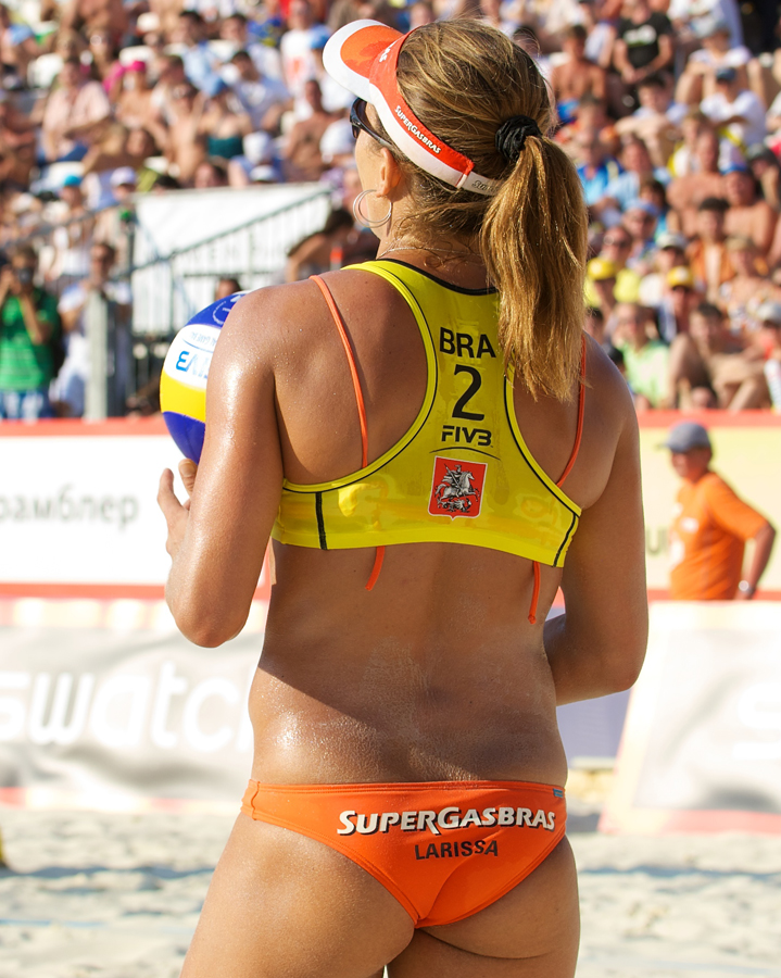 Grand Slam Moscow 2011